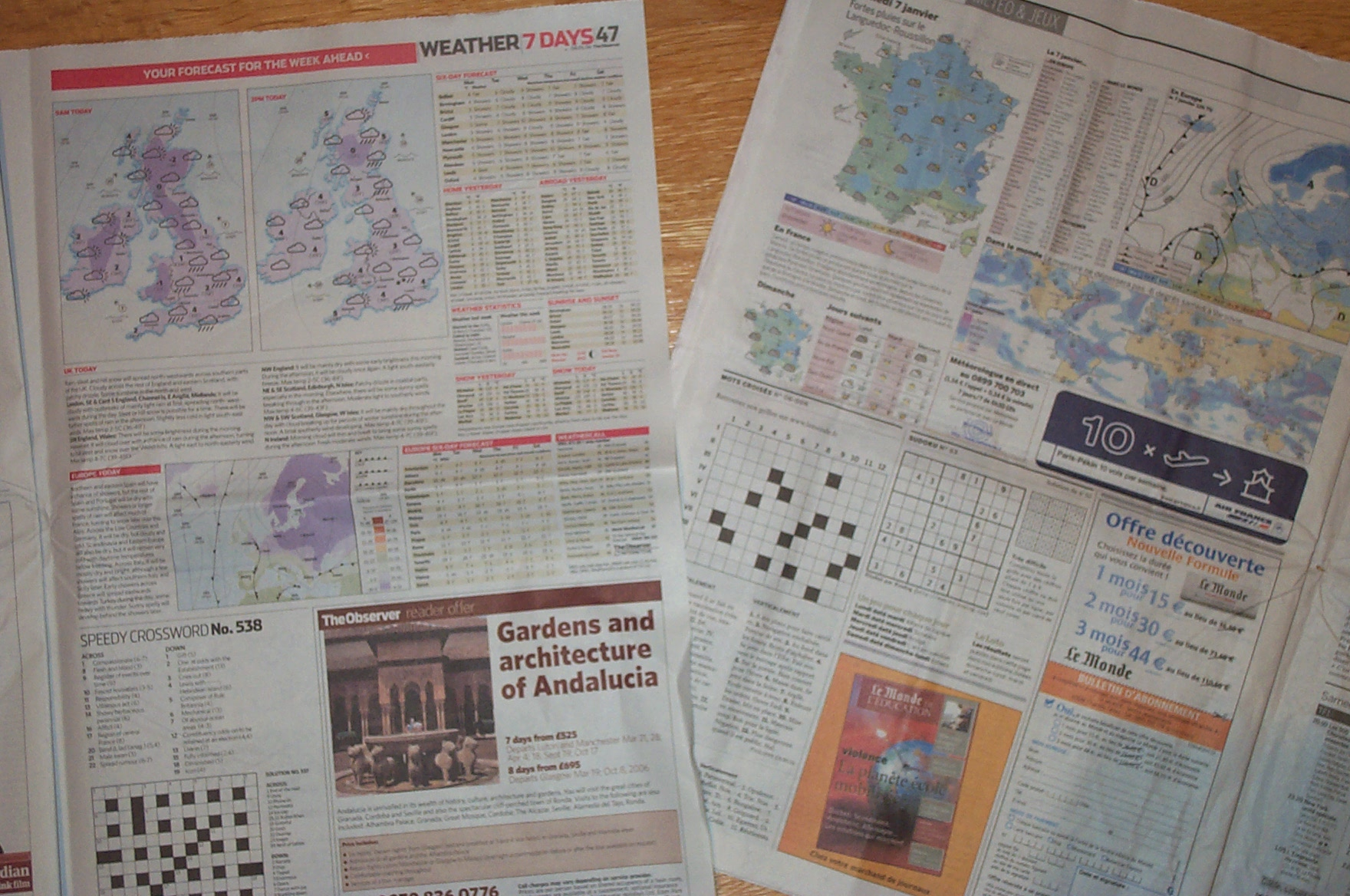 Weather forecasting is a common feature in newspapers, as shown here in the back pages of The Observer and Le Monde.